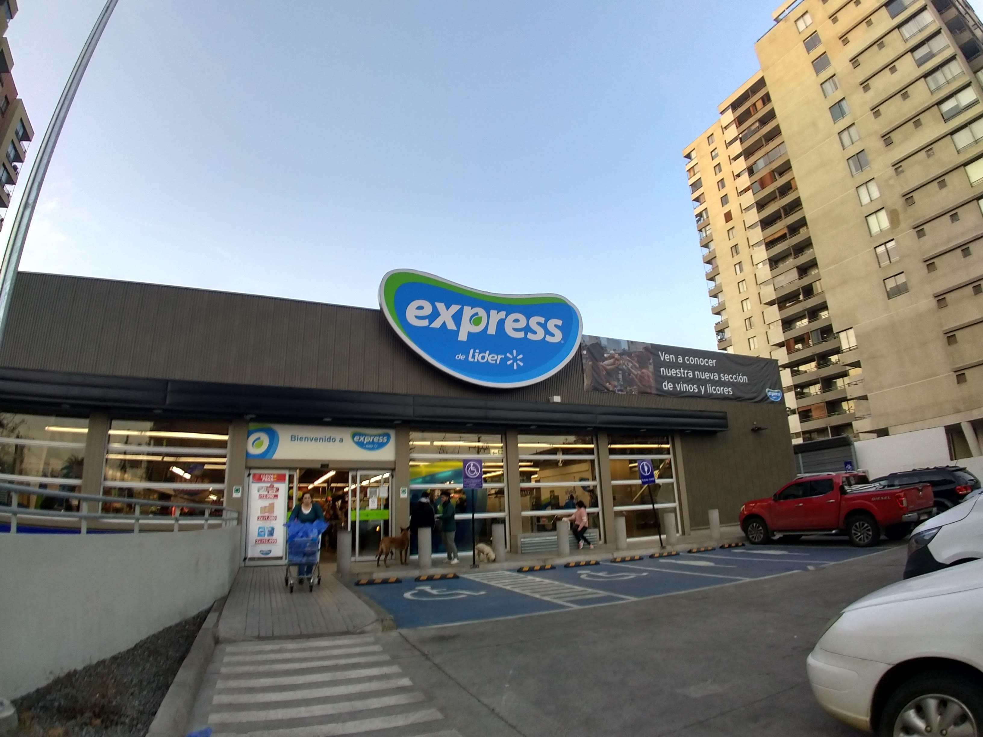 Walmart Chile